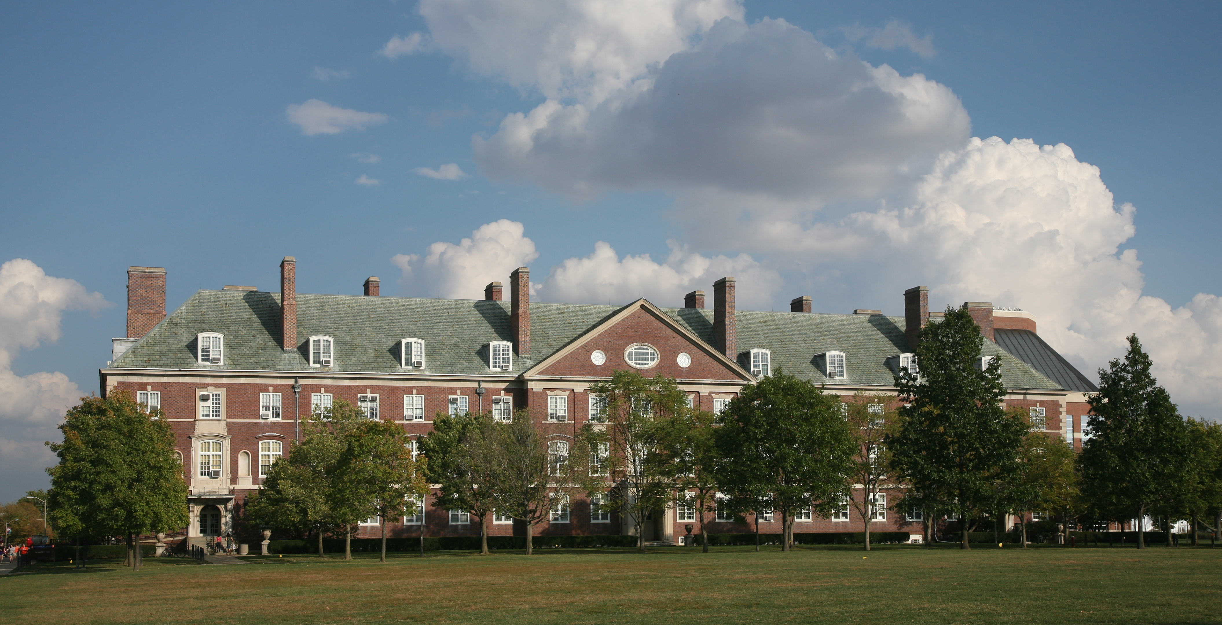 Mumford Hall on South Quad, University of Illinois at Urbana-Champaign campus.